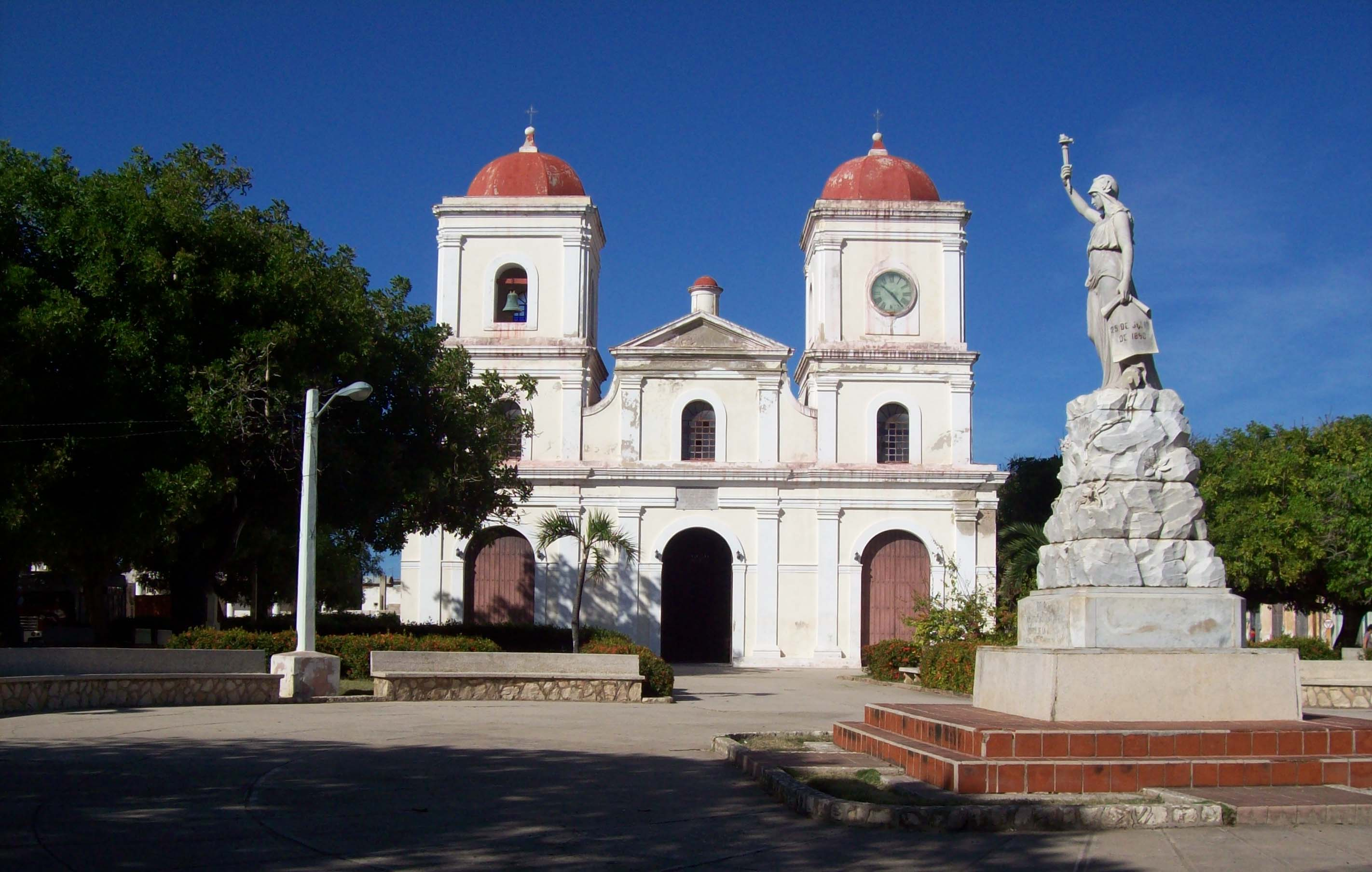 The San Fulgencio's Parish Church and the Statue of Liberty located in Calixto Garcia park in the town of Gibara, Holguín Province, Cuba. Located in the historic center of the town that is a part of the architectural heritage.